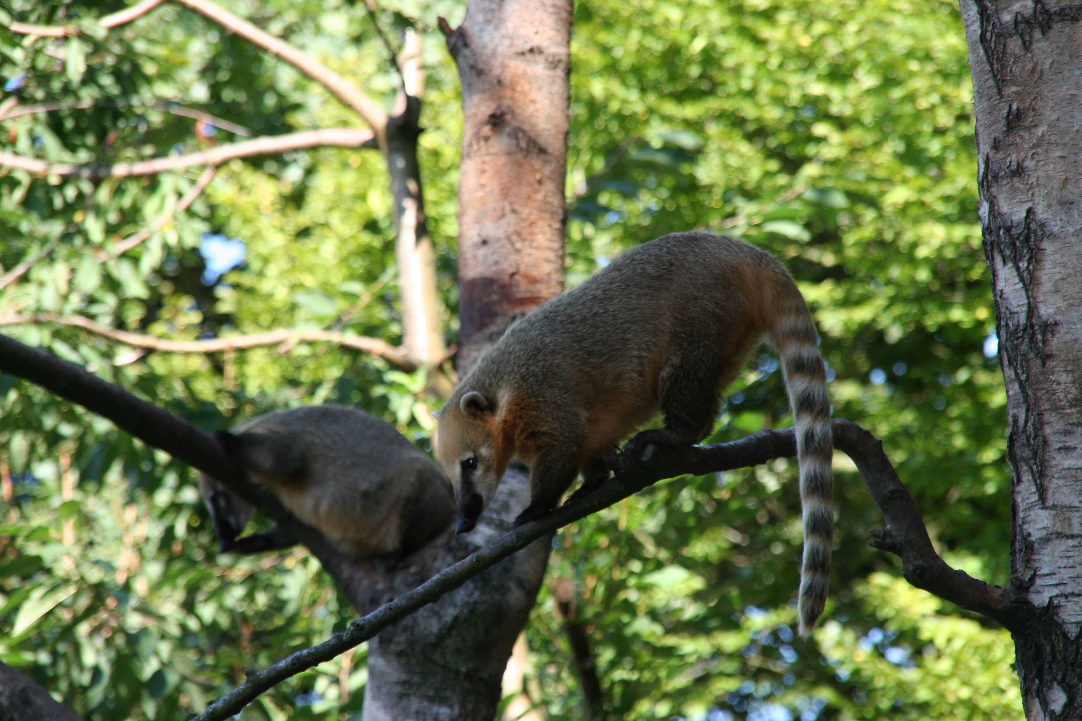 Zoo Osnabrück: Nasenbär